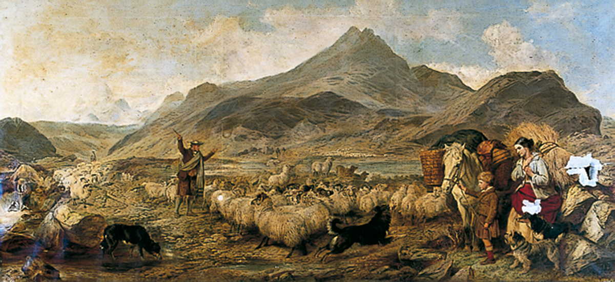 Ansdell, Richard; Drovers in Glen Sligachan, Isle of Skye; York Museums Trust